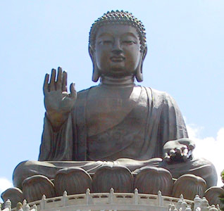 Tian Tan Buddha, also known as the “Big Buddha”, at Ngong Ping, Lantau Island, in Hong Kong.